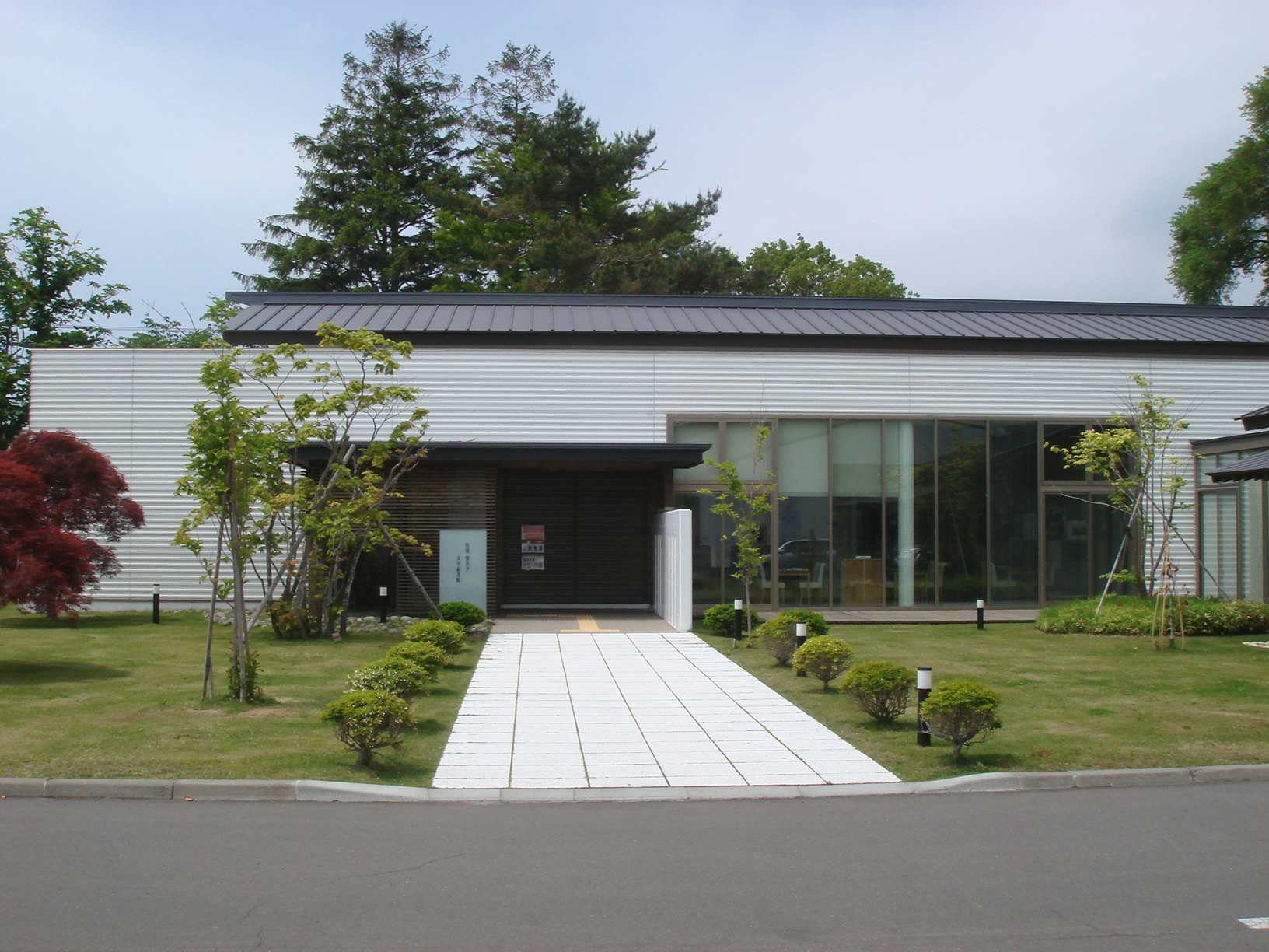 Tomiko miyao memorials literature (Date, Hokkaidō)